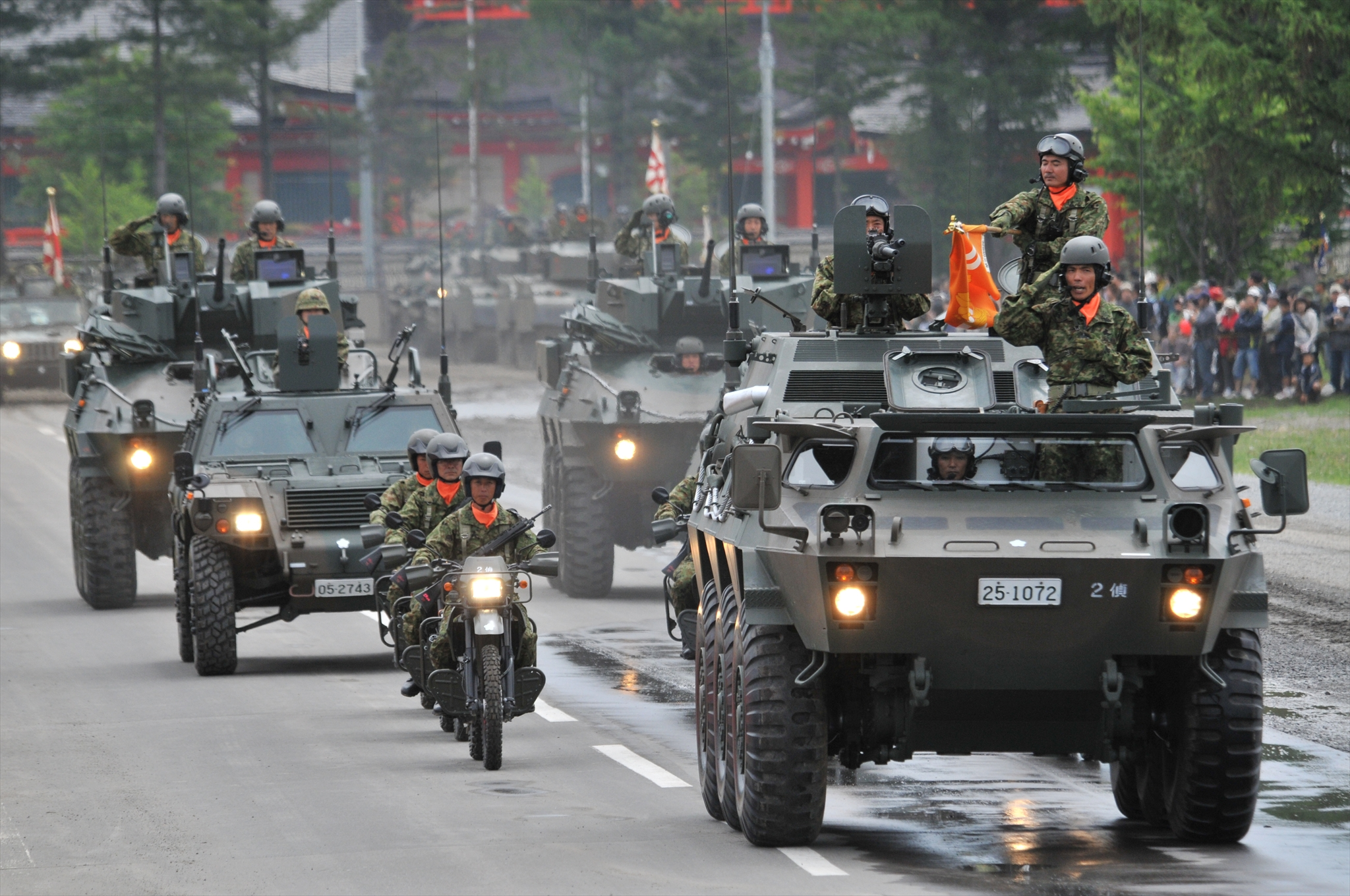 Title ８２式指揮通信車 2D-RI-3 (師団創立記念行事)_R.JPG Album 装備 ８２式指揮通信車（創立記念行事・第２偵察隊）